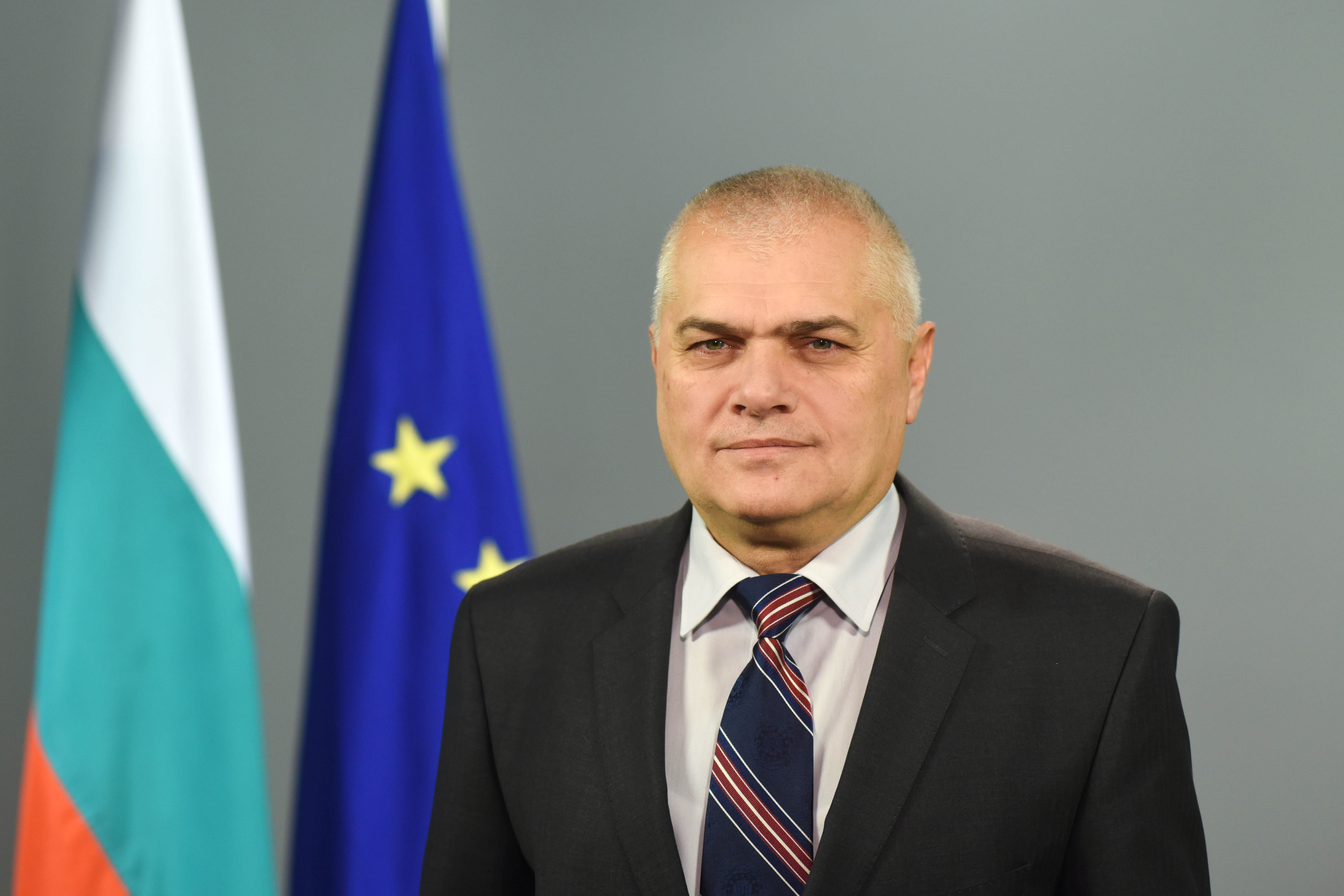 Valentin Radev, Minister of Interior